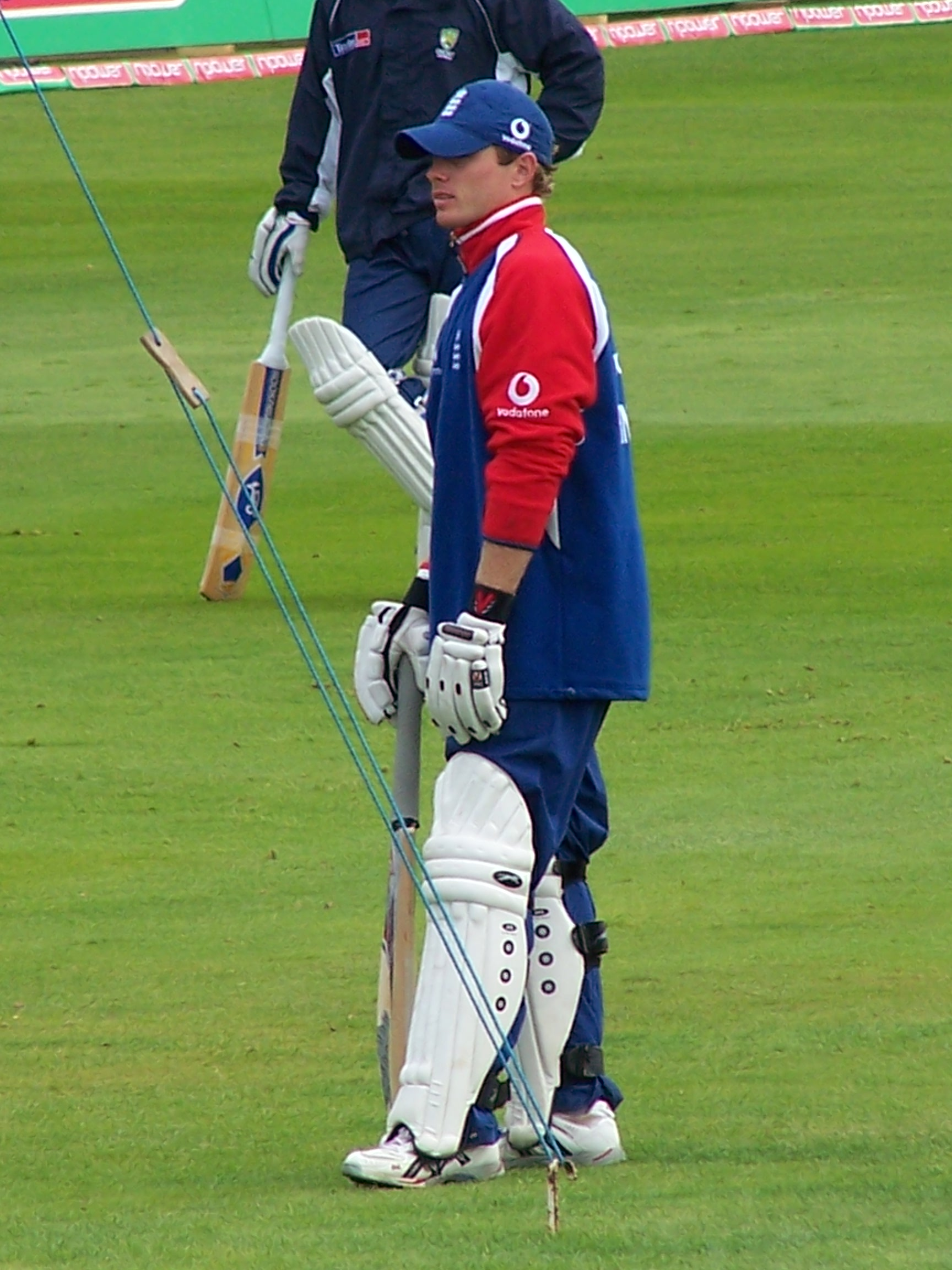 Ian Bell preparing for the 4th Ashes test 2005 at Trent Bridge